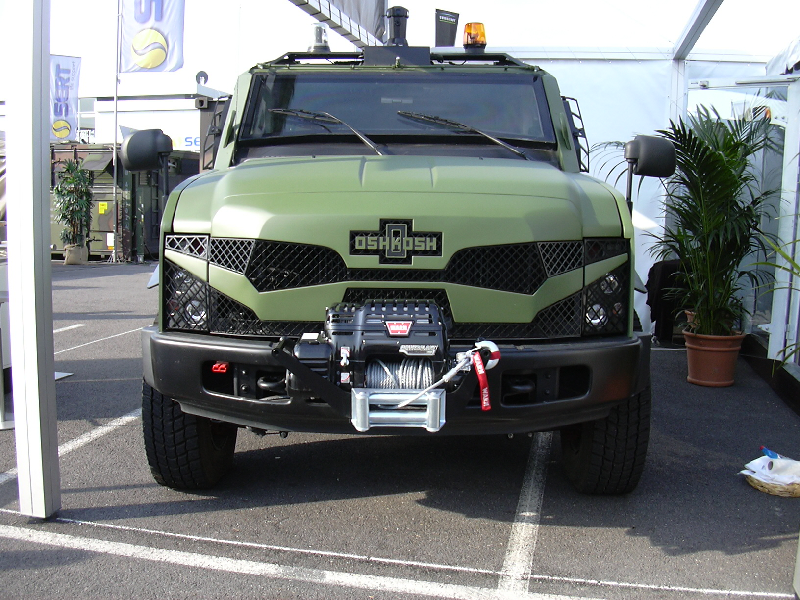 The new front of the Oshkosh Sand Cat as seen at the 2008 Eurosatory exhibition. The vehicle used to be the Plasan Sand Cat and had a Ford grille.